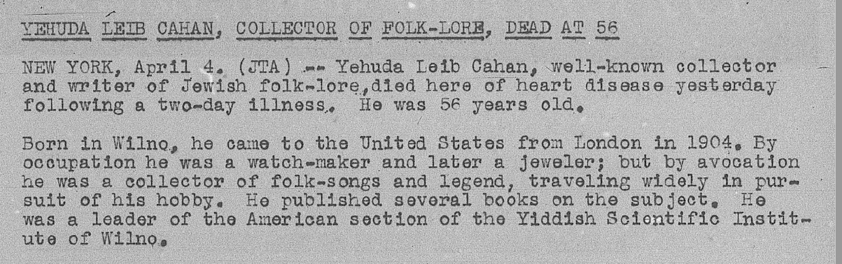 Announcement of the death of Judah Leib Cahan by the JTA (jewish Telegraphic Agency) in 1937